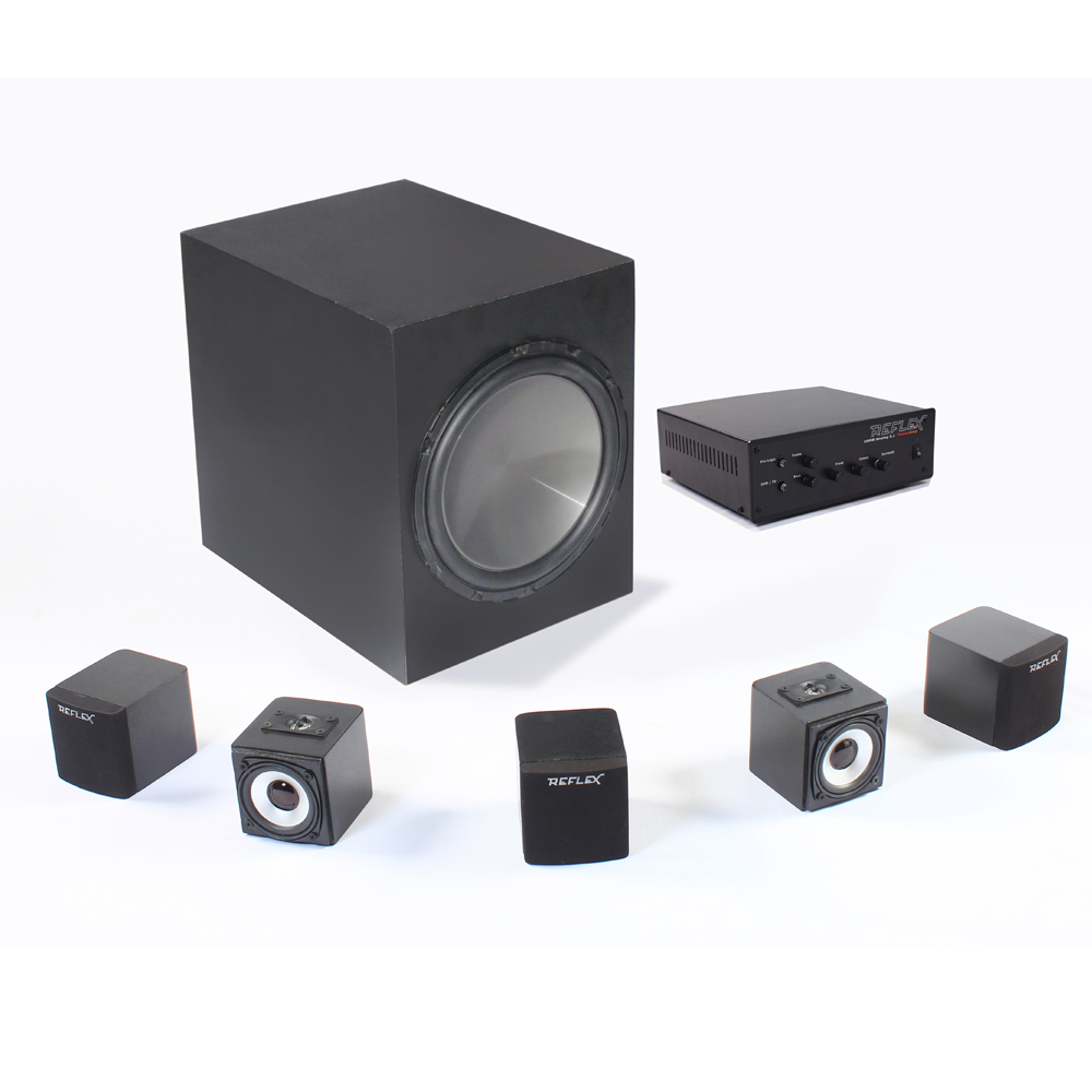 Reflex audio we are the manufacturer of speakers and satellite systems specally and also fullrange amplified tower speakers